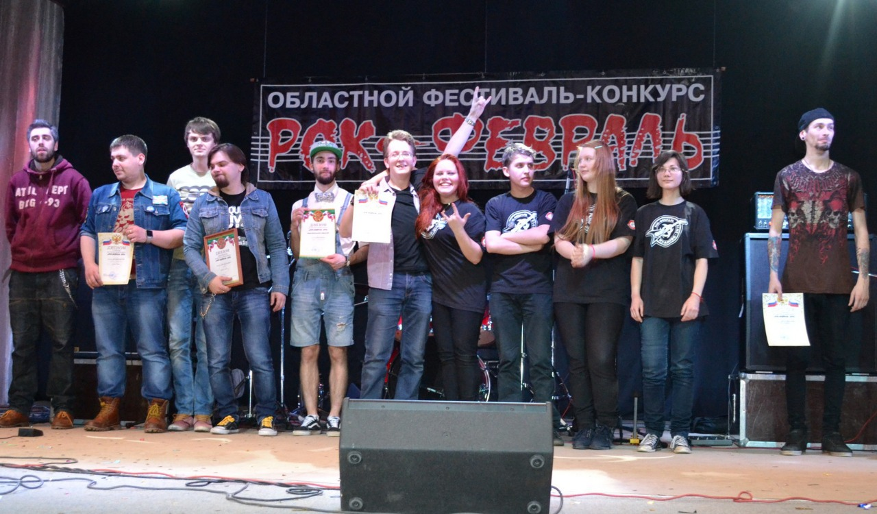 Музыканты XXII Областного фестиваля «Рок-Февраль — 2015»